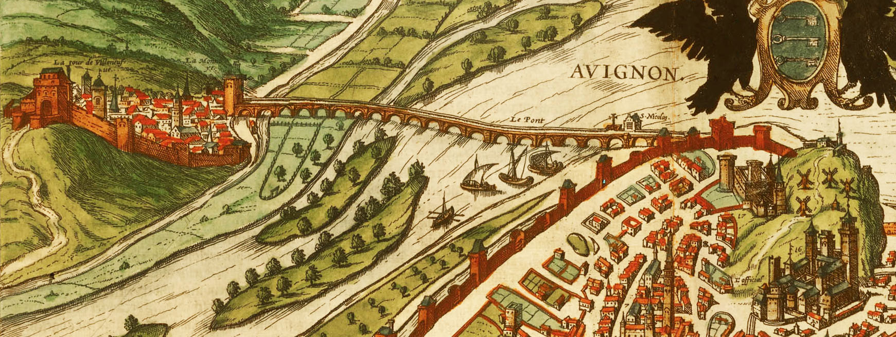 A crop of a print of the town of Avignon by Georg Braun and Franz Hogenberg published as plate 13 in Civitates orbis terrarum Volume 2. The picture shows the Pont Saint-Bénezet over the Rhone viewed from the south with Villeneuve-lès-Avignon on the left and Avignon of the right.